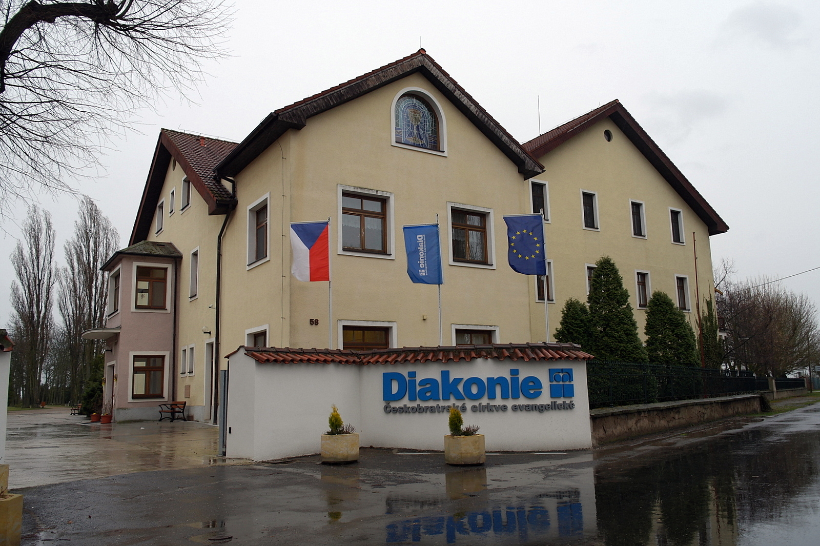 Diaconia of Evangelical Church of Czech Brethren, 58 Rovné, Rovné (Krabčice), Litoměřice District. Home of rest in old age.